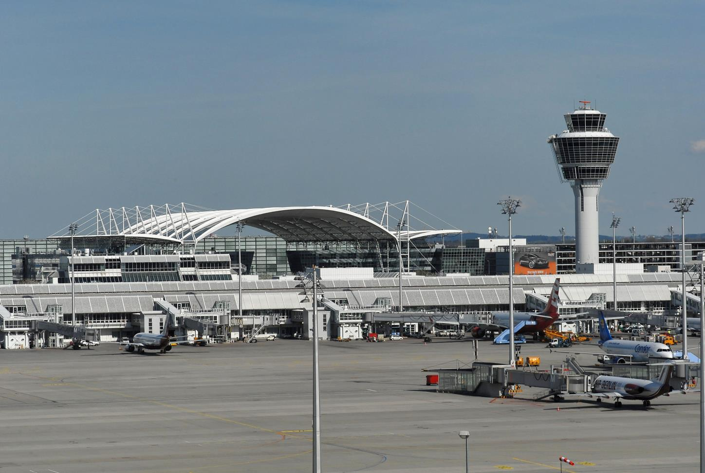 munich Airport, Tower, MAC